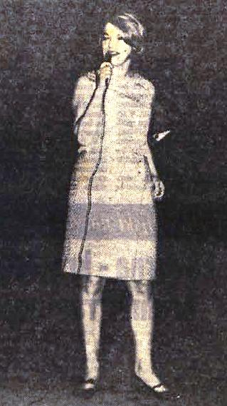 Majda Sepe (1937-2006), Slovene vocalist